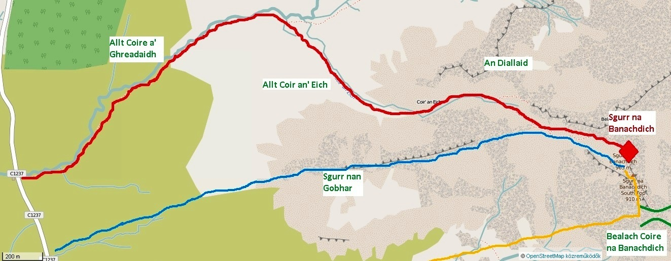 Hiking trails leading to the summit of Sgurr na Banachdich.